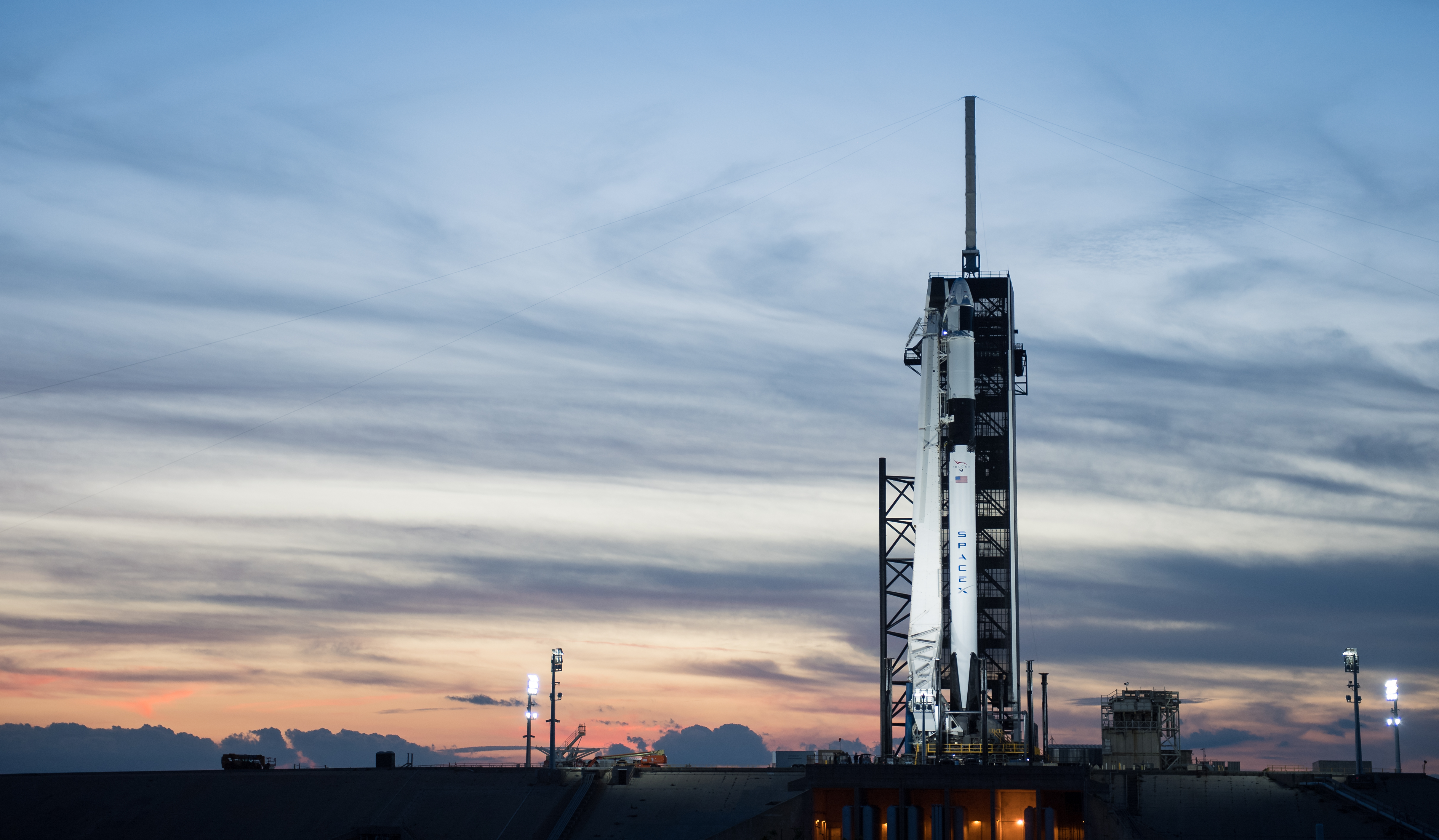 A SpaceX Falcon 9 rocket with the company's Crew Dragon spacecraft onboard is seen after being raised into a vertical position on the launch pad at Launch Complex 39A as preparations continue for the Demo-1 mission, Feb. 28, 2019 at the Kennedy Space Center in Florida. The Demo-1 mission will be the first launch of a commercially built and operated American spacecraft and space system designed for humans as part of NASA's Commercial Crew Program. The mission, currently targeted for a 2:49am launch on March 2, will serve as an end-to-end test of the system's capabilities Photo Credit: (NASA/Joel Kowsky)